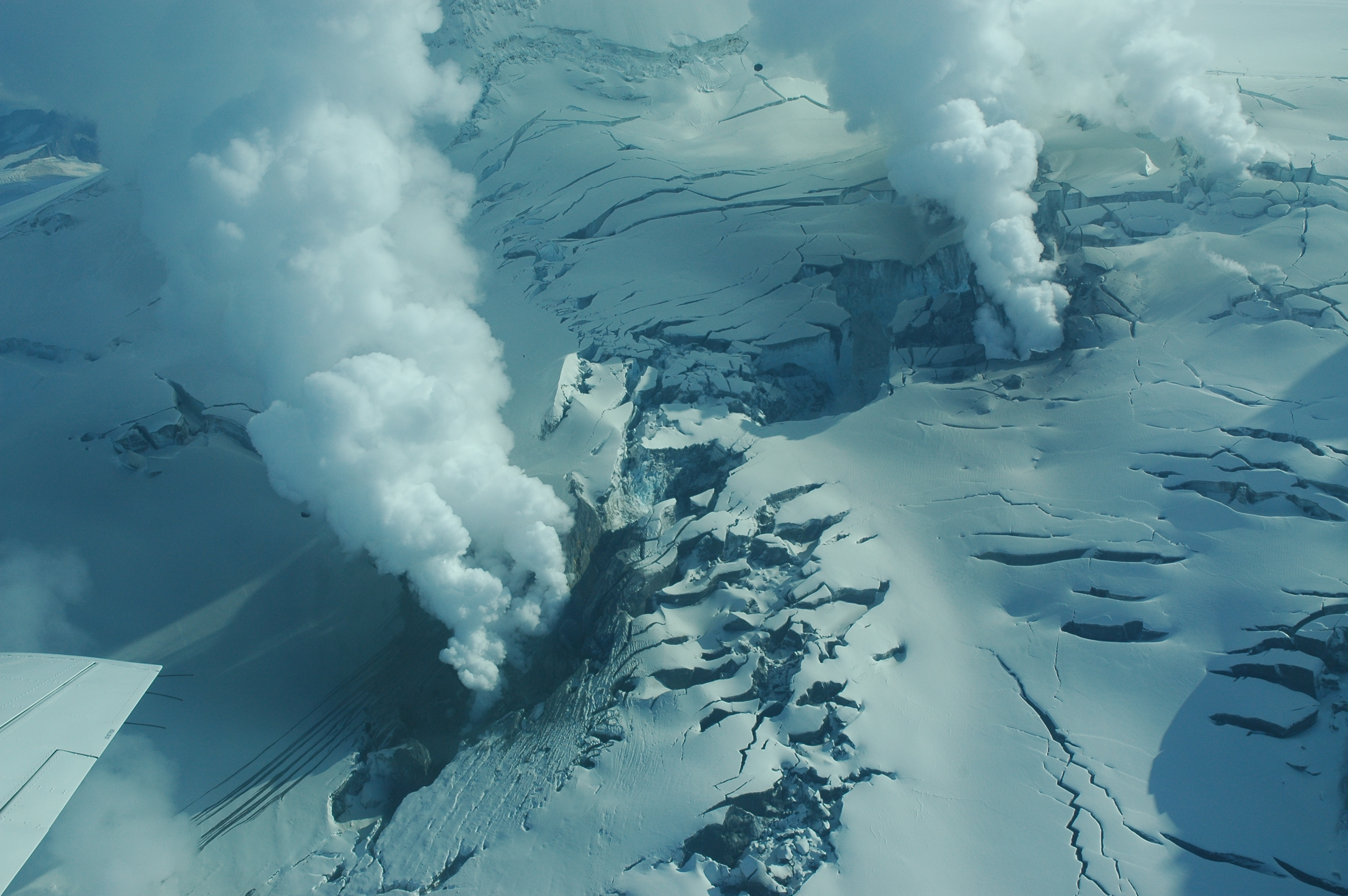 Views of Fourpeaked volcano and area of volcanic activity on the north flank.